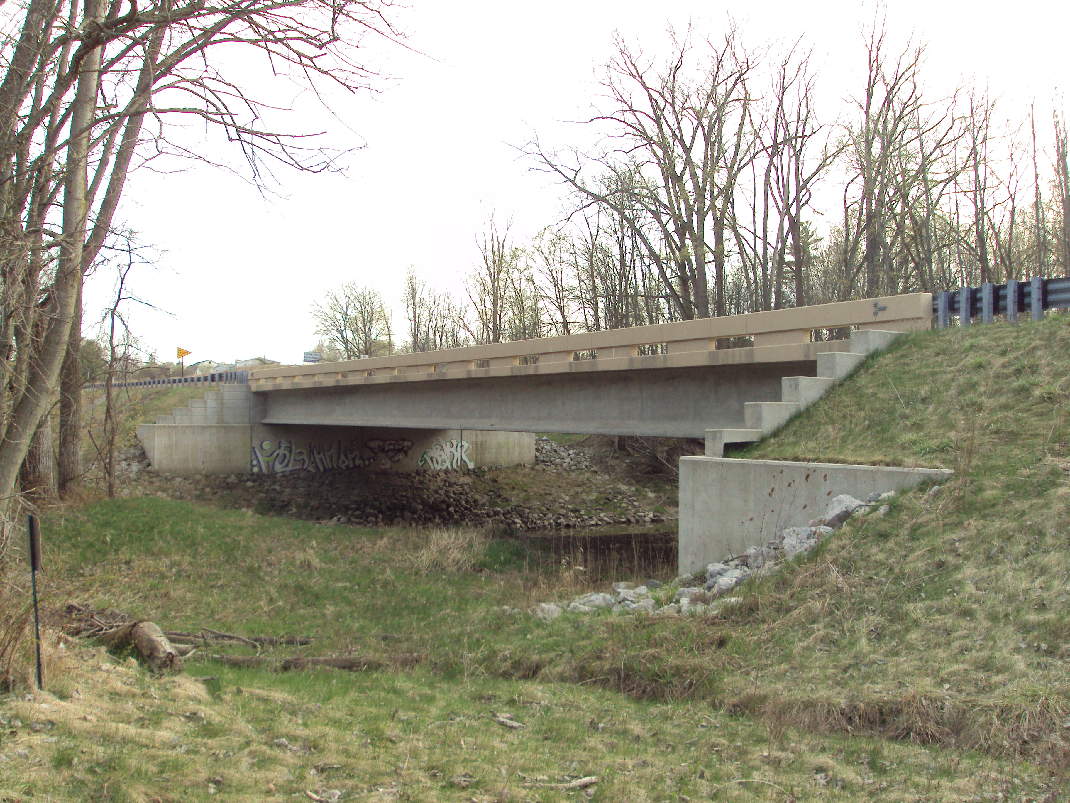 Wadhams Road–Pine River Bridge, St. Clair Township, Michigan; this is a replacement for a National Register-listed bridge.